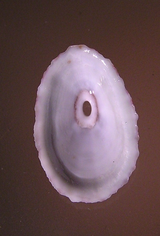 Fissurella rosea, (Gmelin, 1791); a keyhole limpet from the family Fissurellidae; Brazil